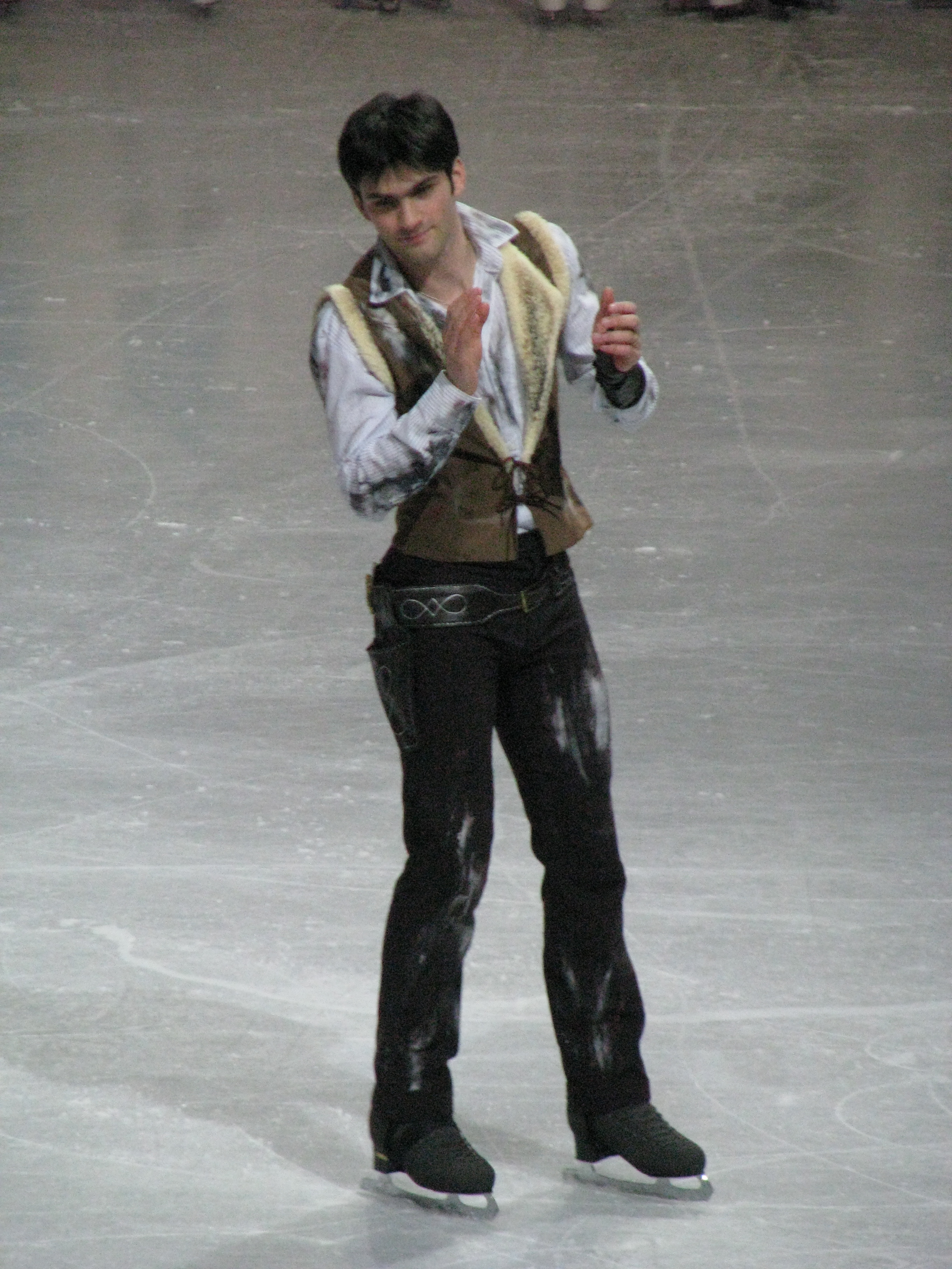 Samuel Contesti in 2010 European Figure Skating Championships (gala)